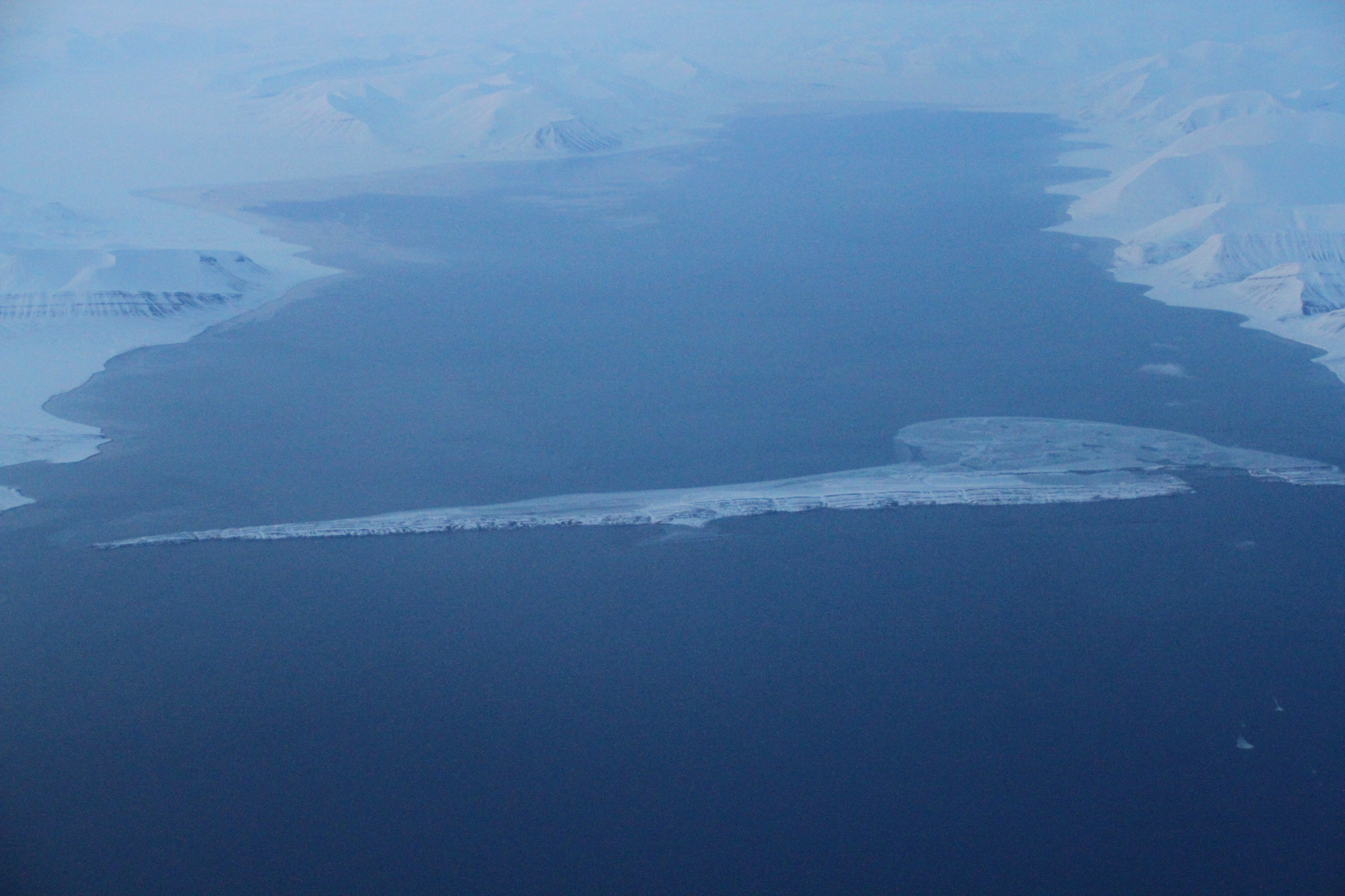 Nathorst Land is the south-central part of Spitsbergen, east of Bellsund. The photo is taken from the west towards east, in the middle of the night. Svalbard, Norway.